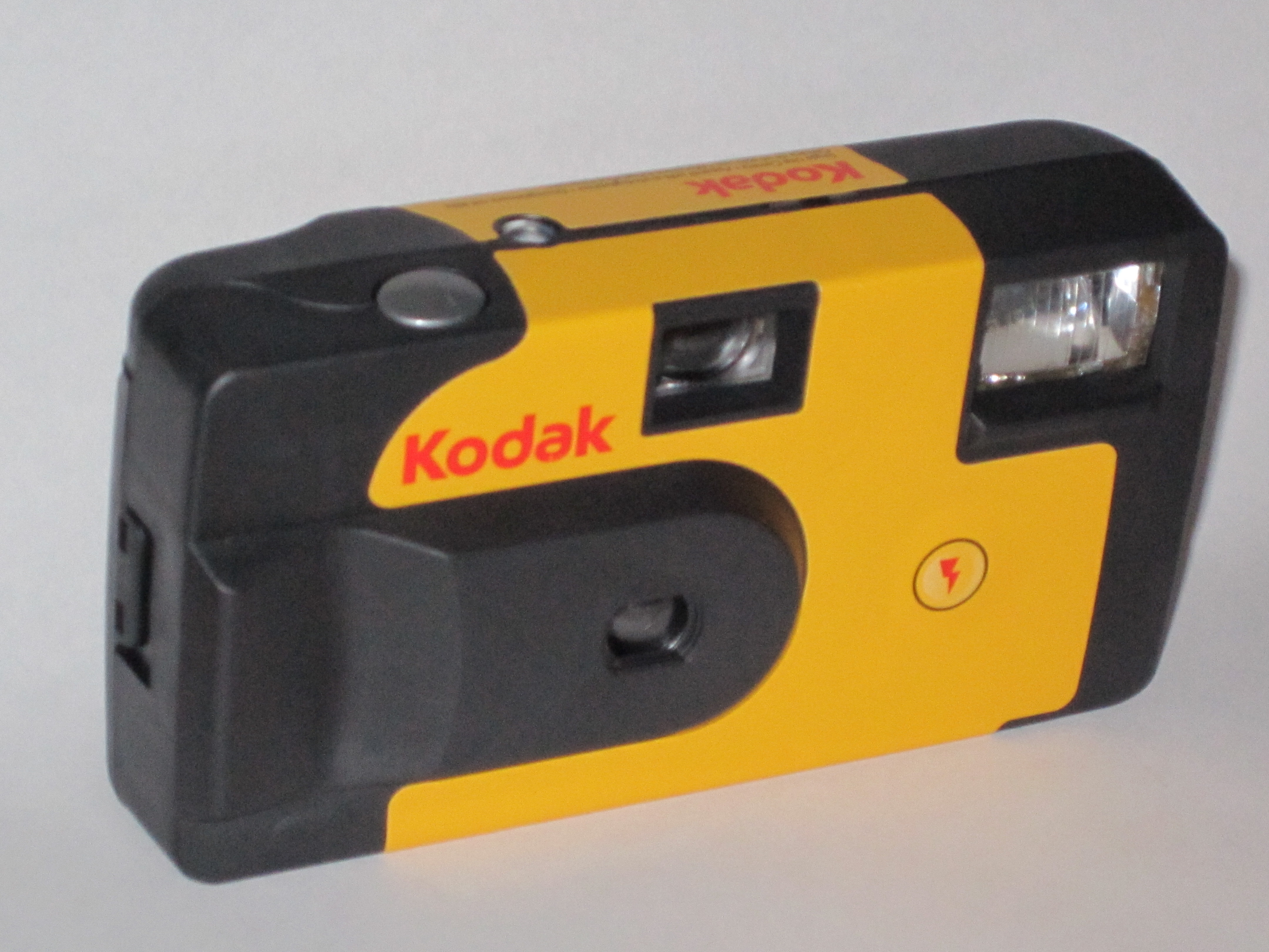 Front view of a Kodak disposable camera. Photo taken in England.